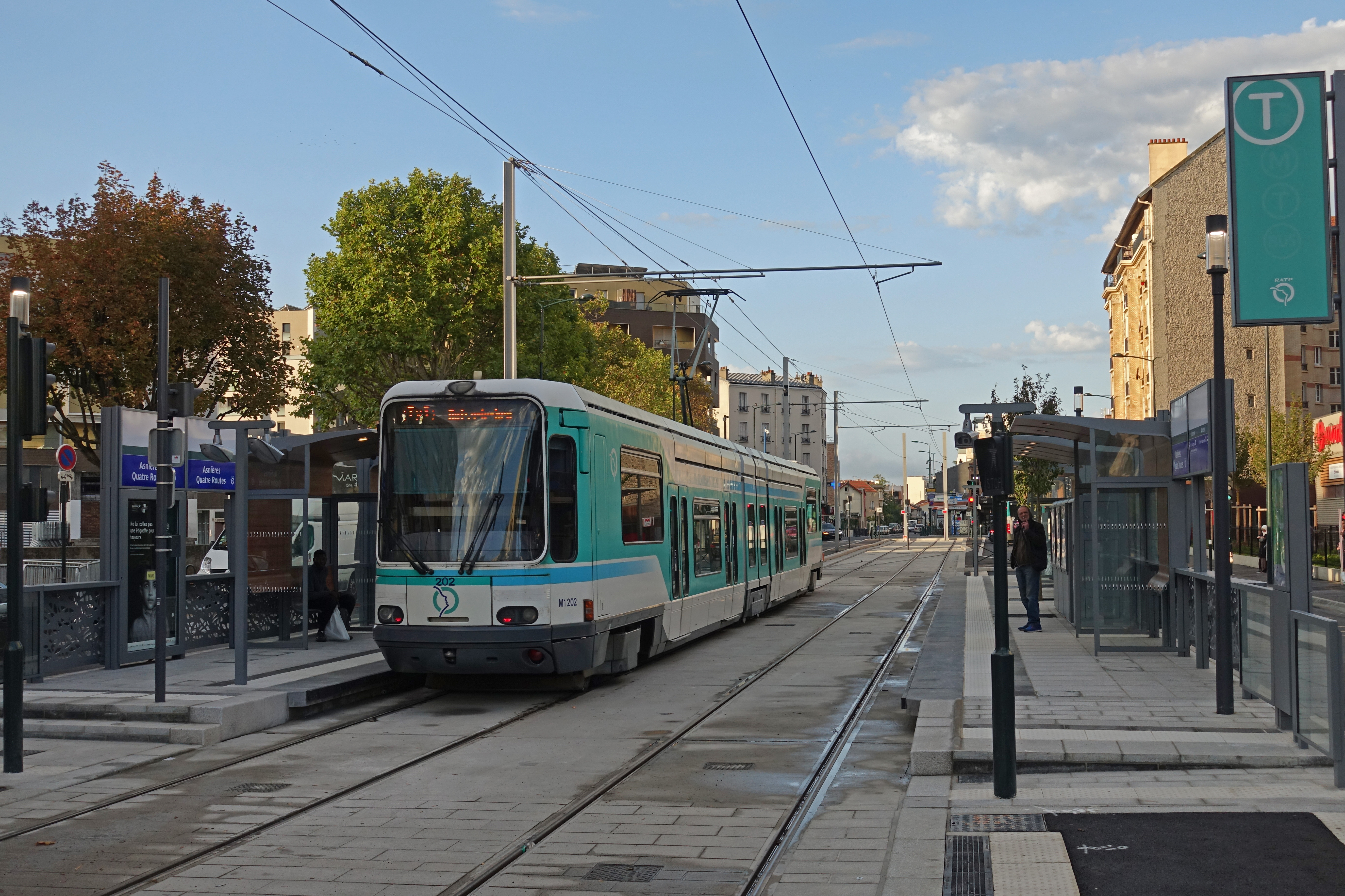 Asnières Quatre Routes stop on Paris Tramway line 1.